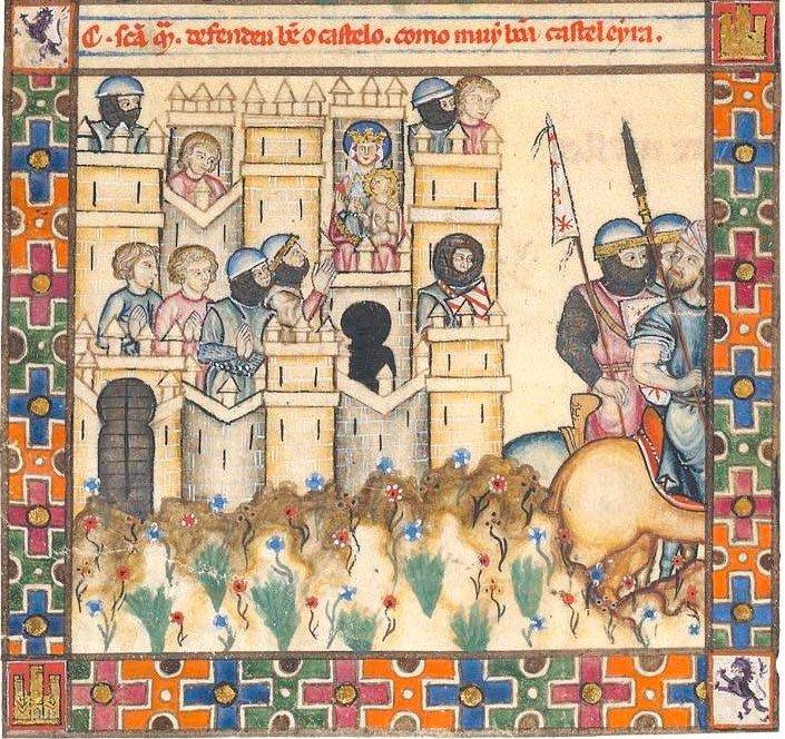 Panel 5 of Page 2 of Cantiga 187. According to the Cantiga, the Moors besieging the Chincoya castle during the Mudéjar revolt of 1264–66 retreated after the Christian defenders put a statue of the Virgin Mary on the ramparts